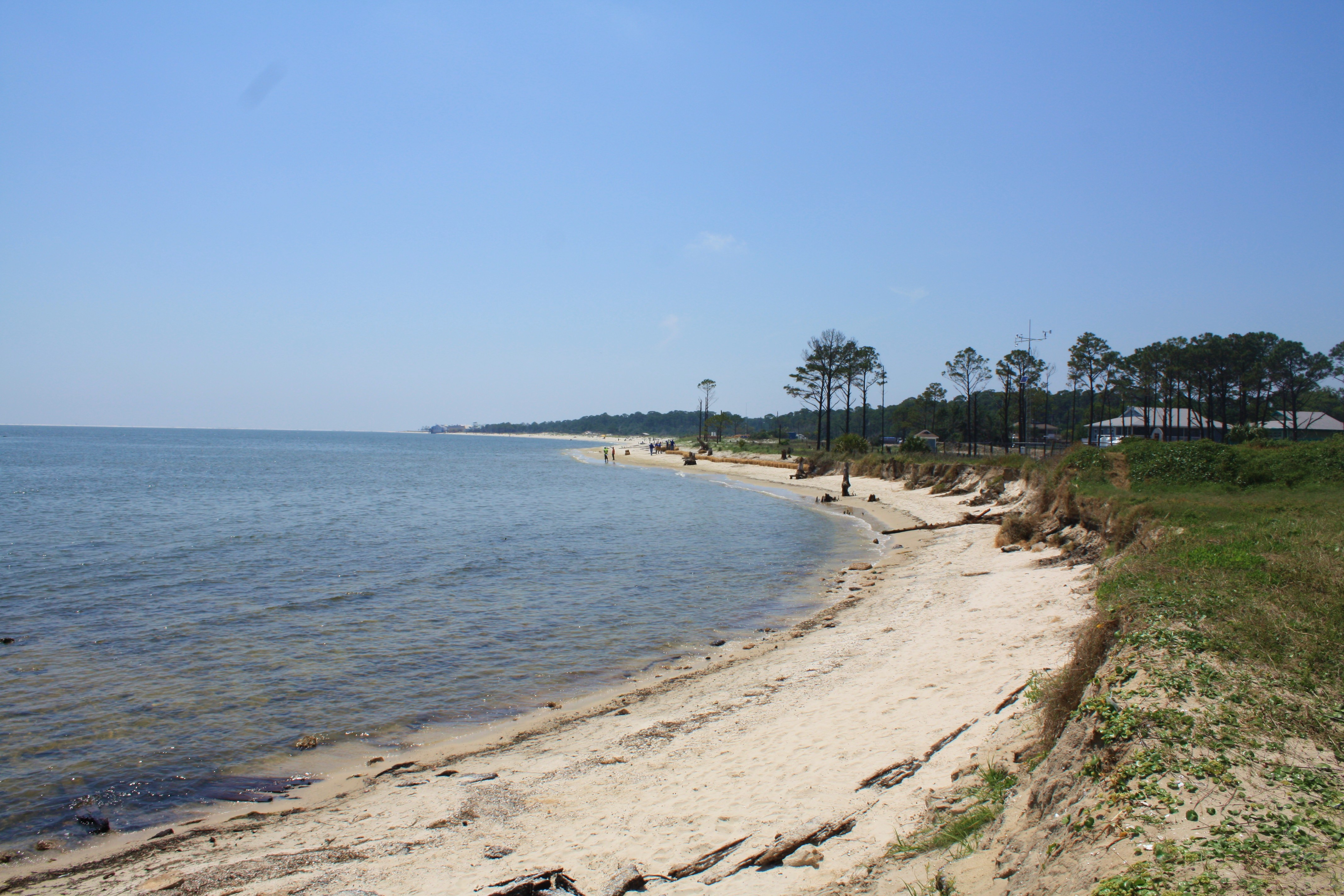 View of the southeastern shore of Dauphin Island, Mobile County, Alabama, United States.